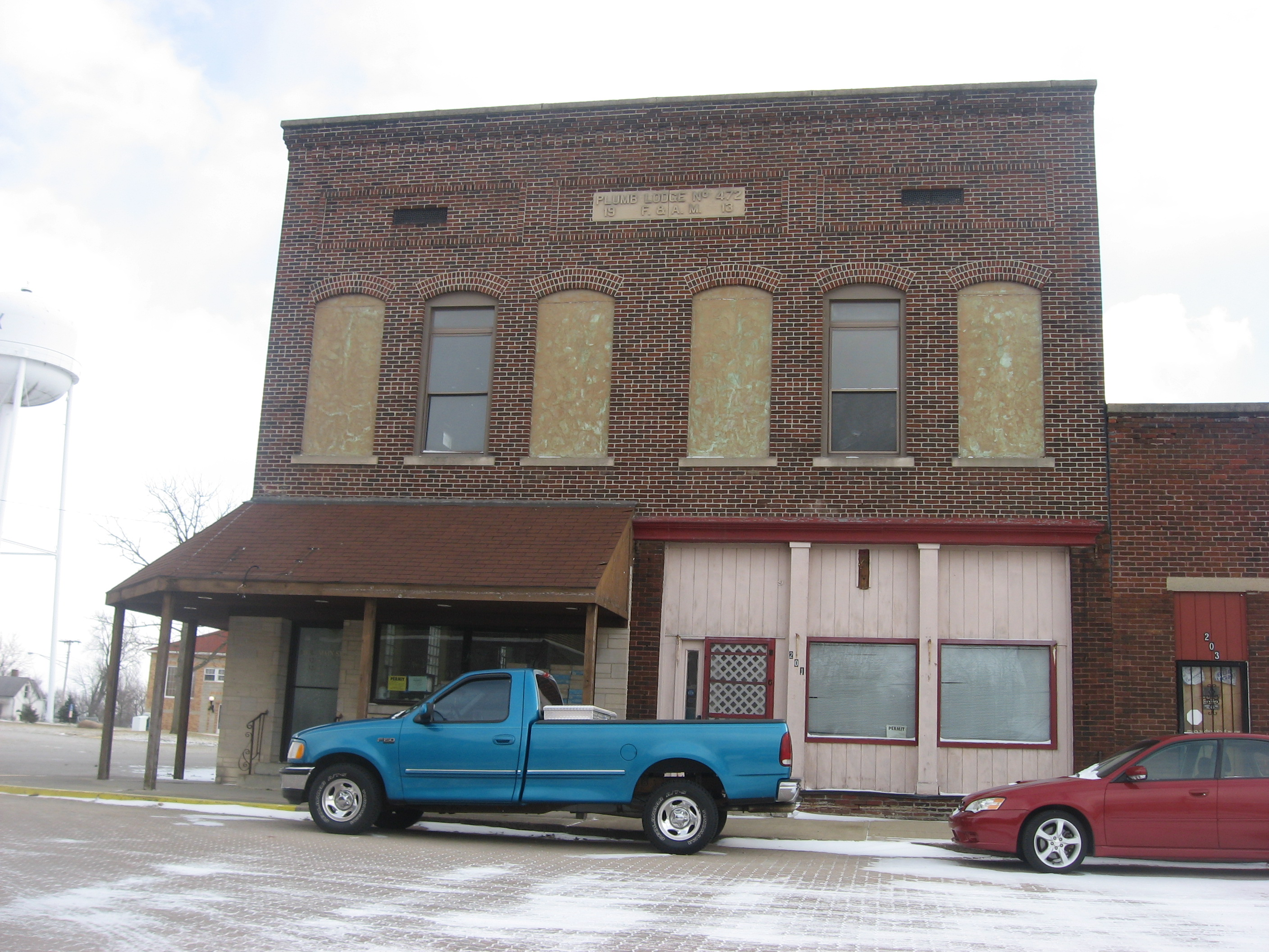 Front of the Plumb Lodge, located at 201 W. Main Street in Colfax, Indiana, United States. Built in 1913 for the local Masonic lodge, it is a part of the locally-designated Colfax Commercial Historic District.